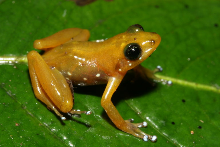 Blommersia angolafaRéserve Naturelle Integrale de Betampona (Madagascar). Male frogs are yellow, whereas females are green.